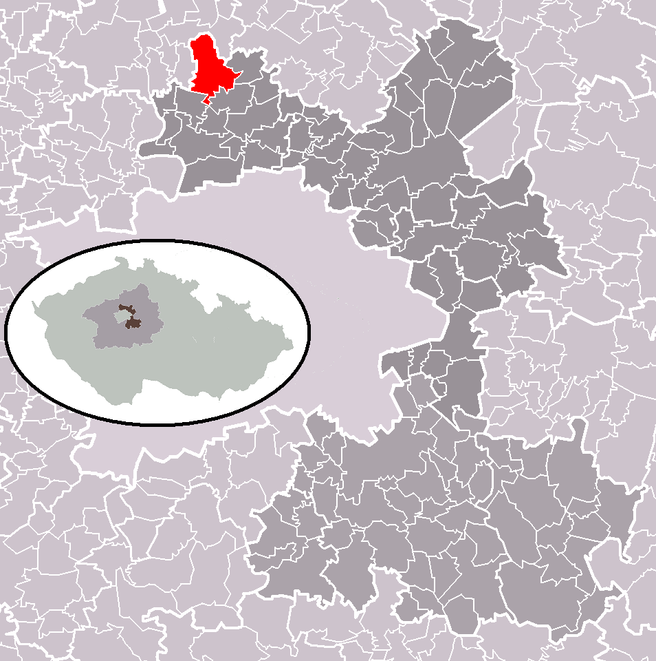 Location of Odolena Voda town within Prague-East District and administrative area of Brandýs nad Labem-Stará Boleslav as a Municipality with Extended Competence.